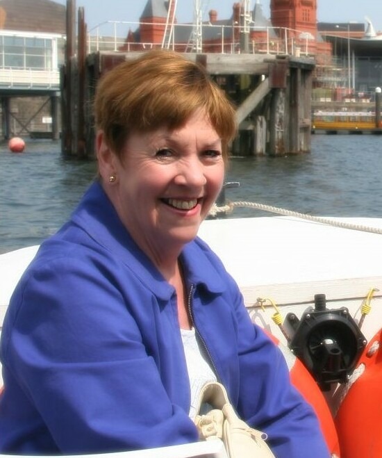 Helen Fraser in Cardiff 2011